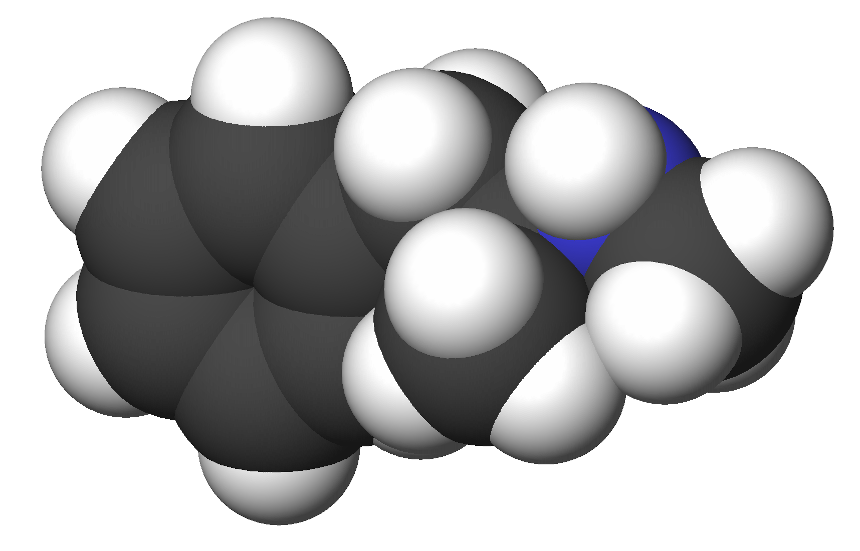 Methamphetamine